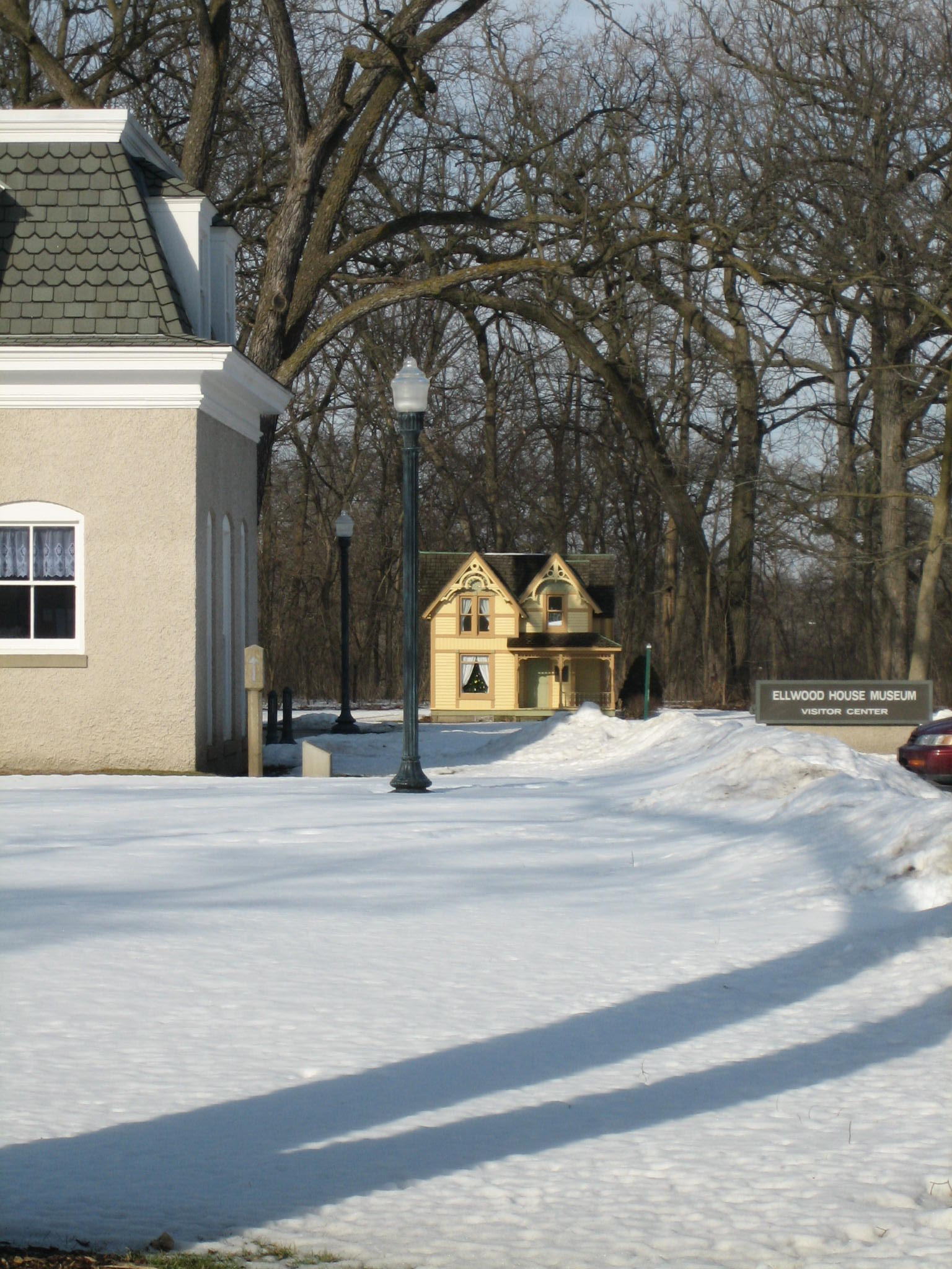 Little House, on the property of Ellwood House, contributing property. DeKalb, Illinois. National Register of Historic Places. Semi-circular bay window addition to dining room, c. 1898.